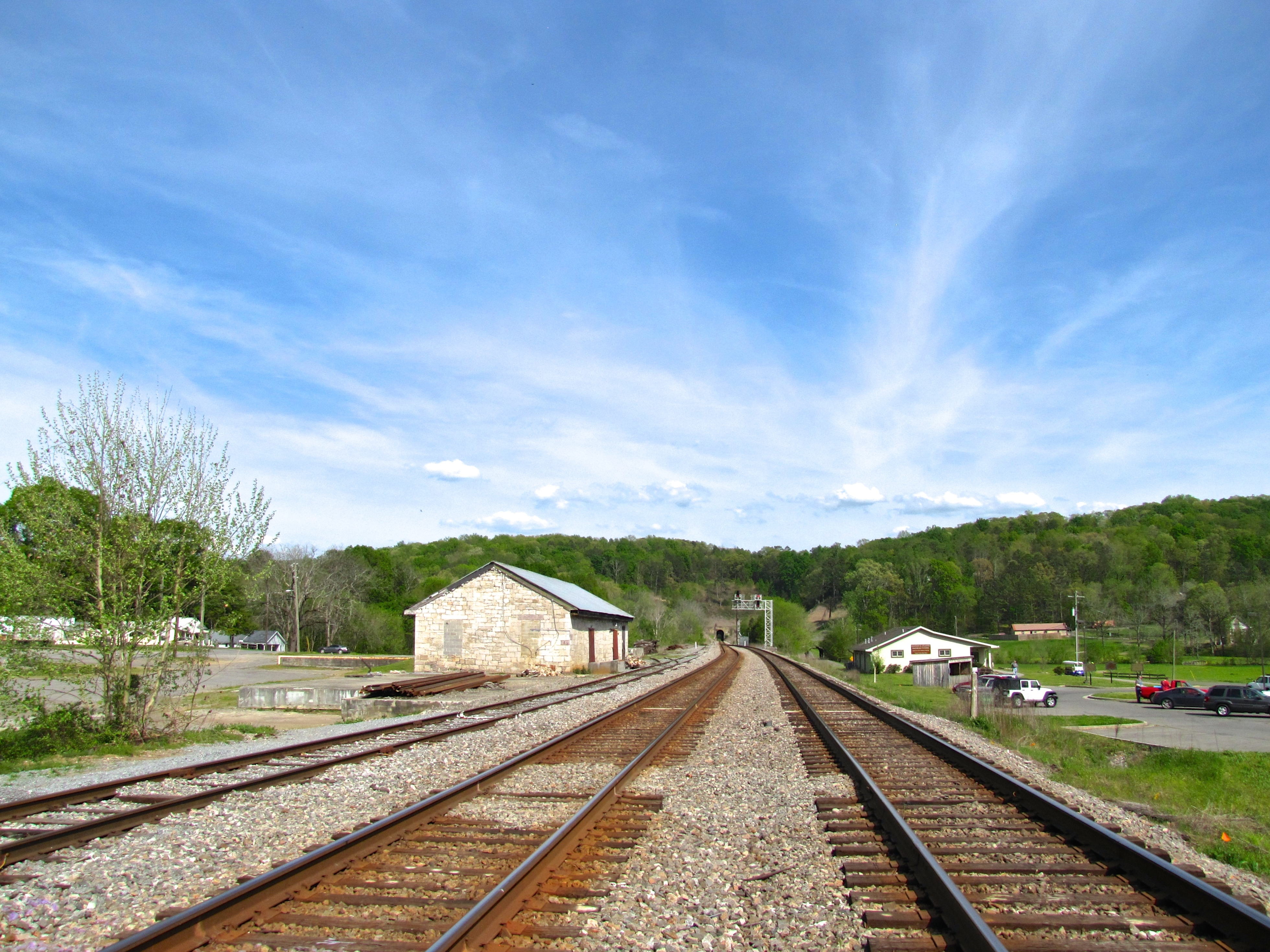 Railroad tracks passing through Tunnel Hill, Georgia, United States. The Chetoogeta Mountain Tunnel is visible in the distance.